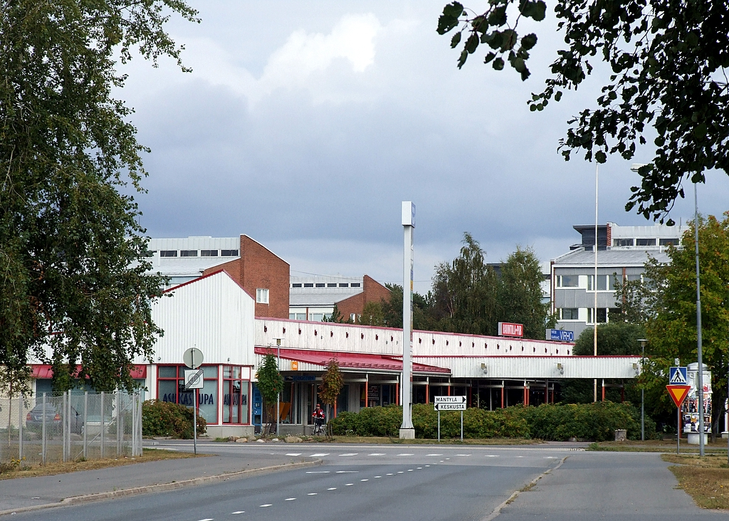 The shopping center (small strip mall) in Höyhtyä neighborhood in Oulu, Finland.